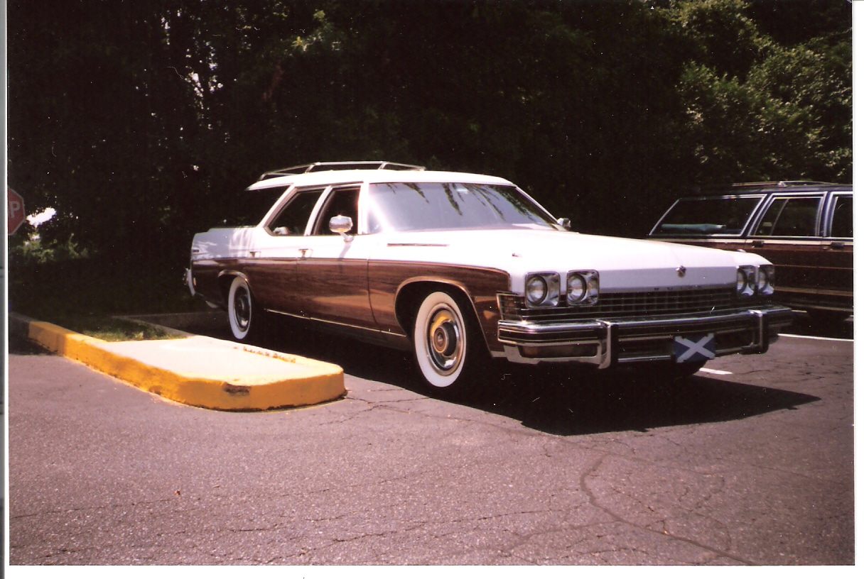 1974 Buick Estate Wagon that I photographed in Princeton, New Jersey in June 2003